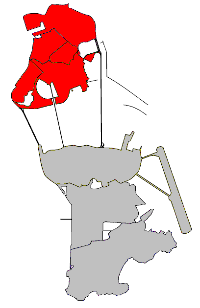 Map of Macau